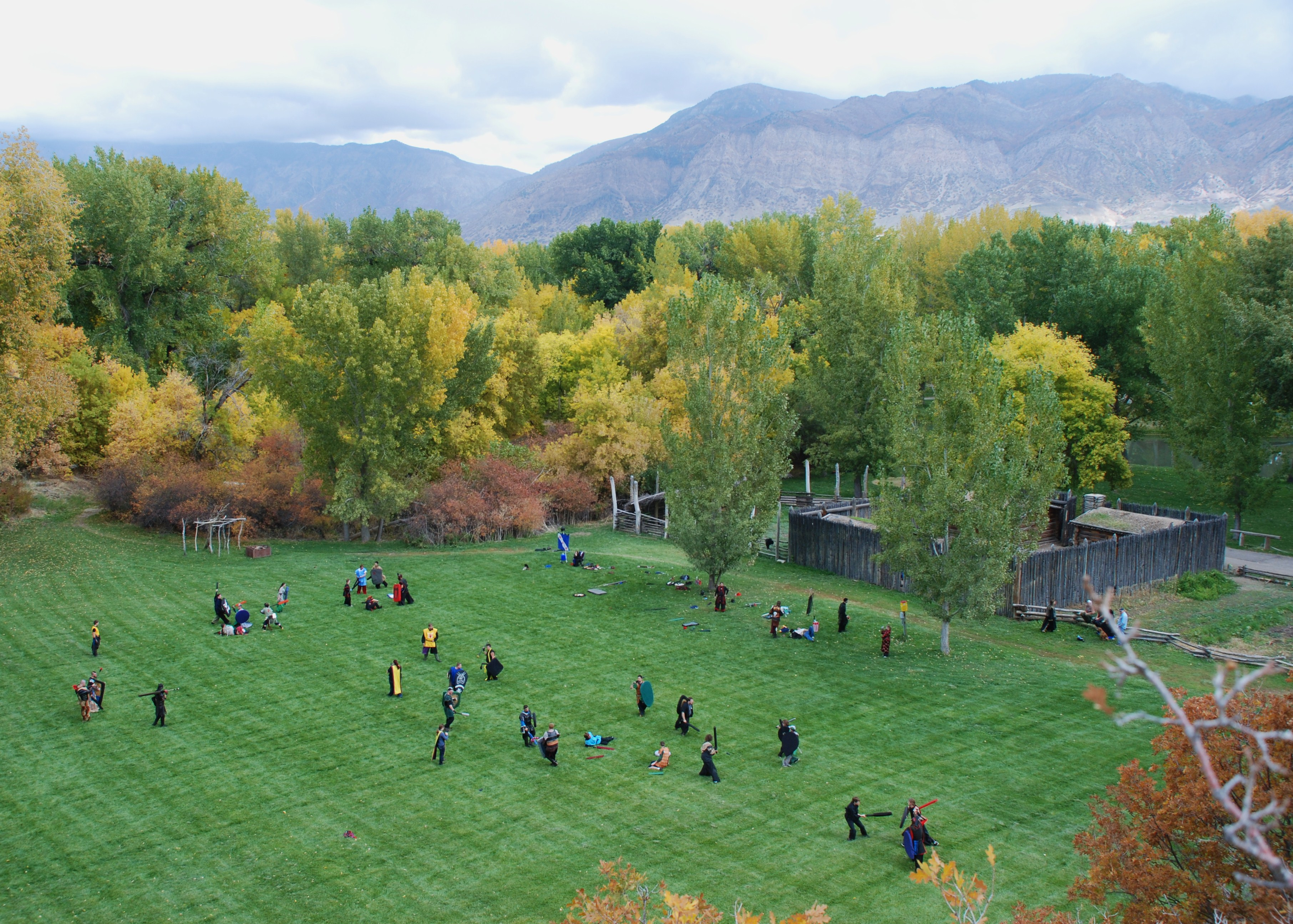 Belegarth Medieval Combat Society's annual battle at Fort Buenaventura.